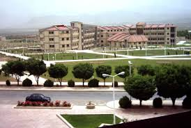 daneshgahshahrekord2